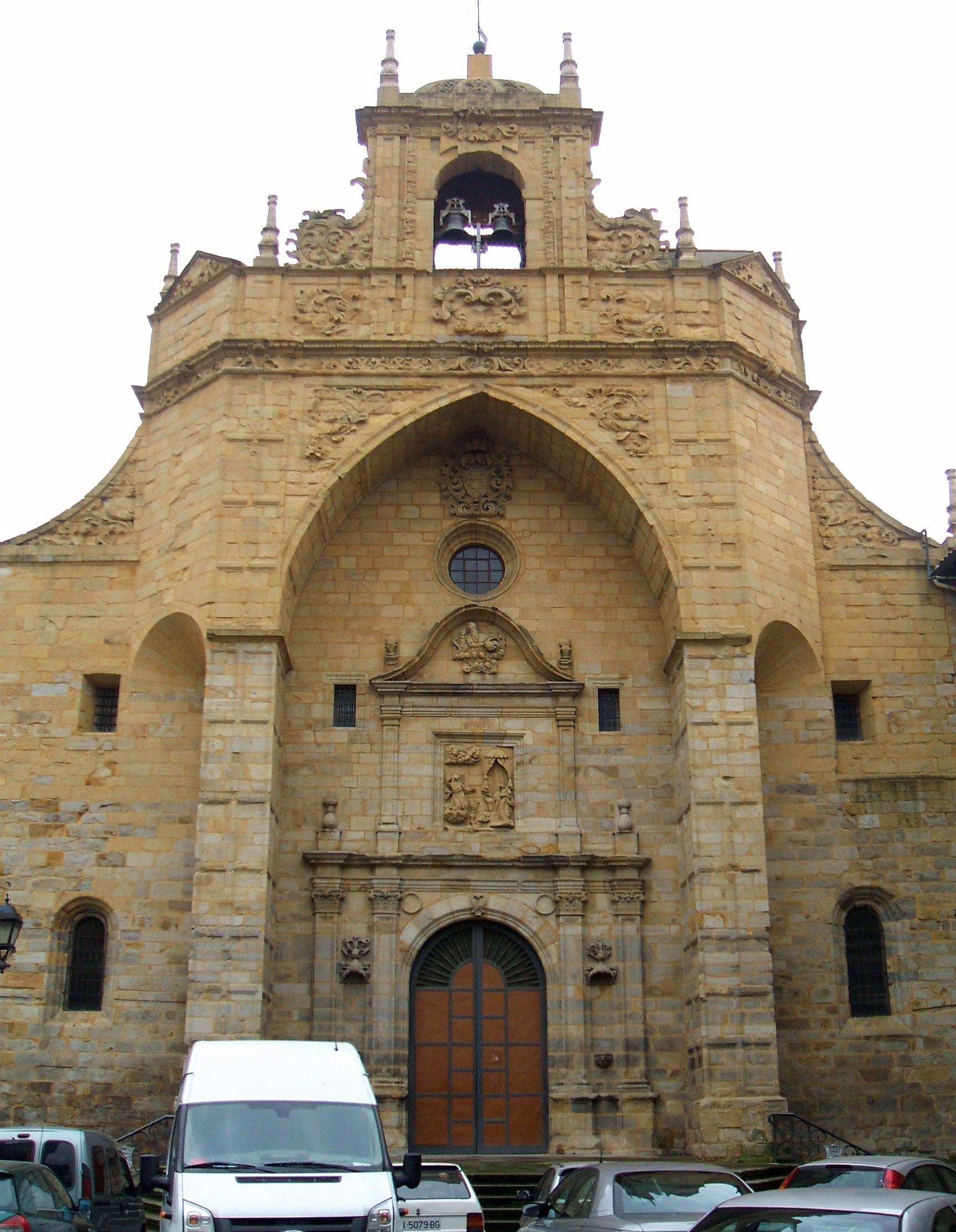 Iglesia del antiguo Convento de la Encarnación de Atxuri, en Bilbao (España)